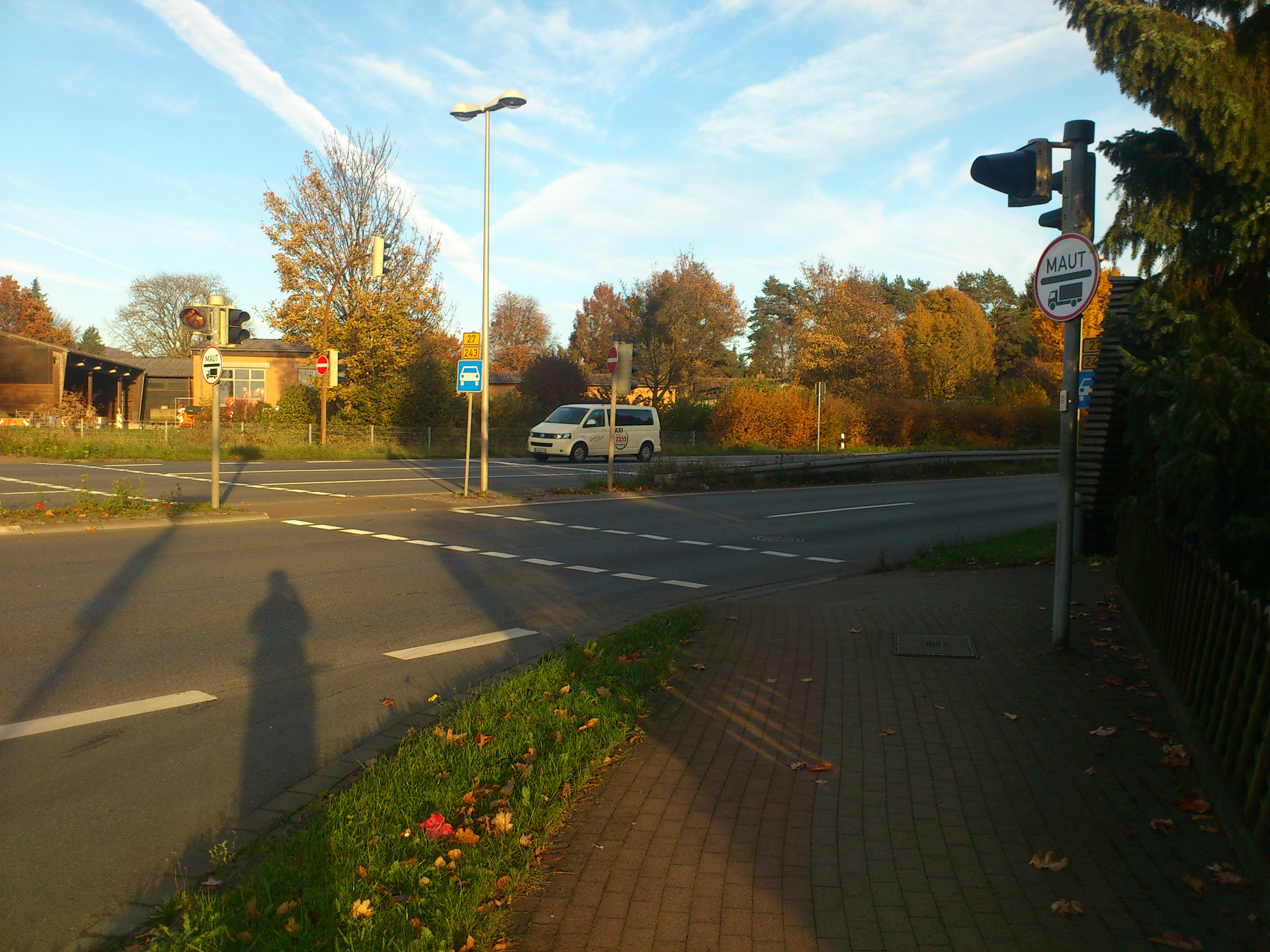 The federal roads B 27 and B 243 on the exit of Herzberg in direction of Braunlage (27) and Nordhausen (243) .New installed the truck toll mark at the beginning of the motorway-like road.